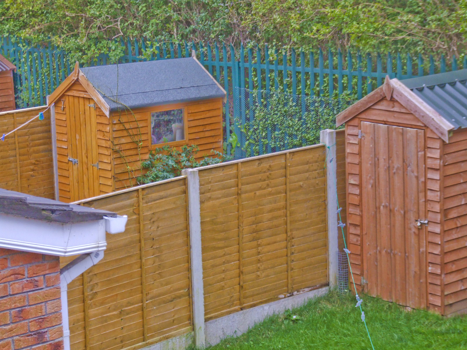 Domestic wooden tool sheds.